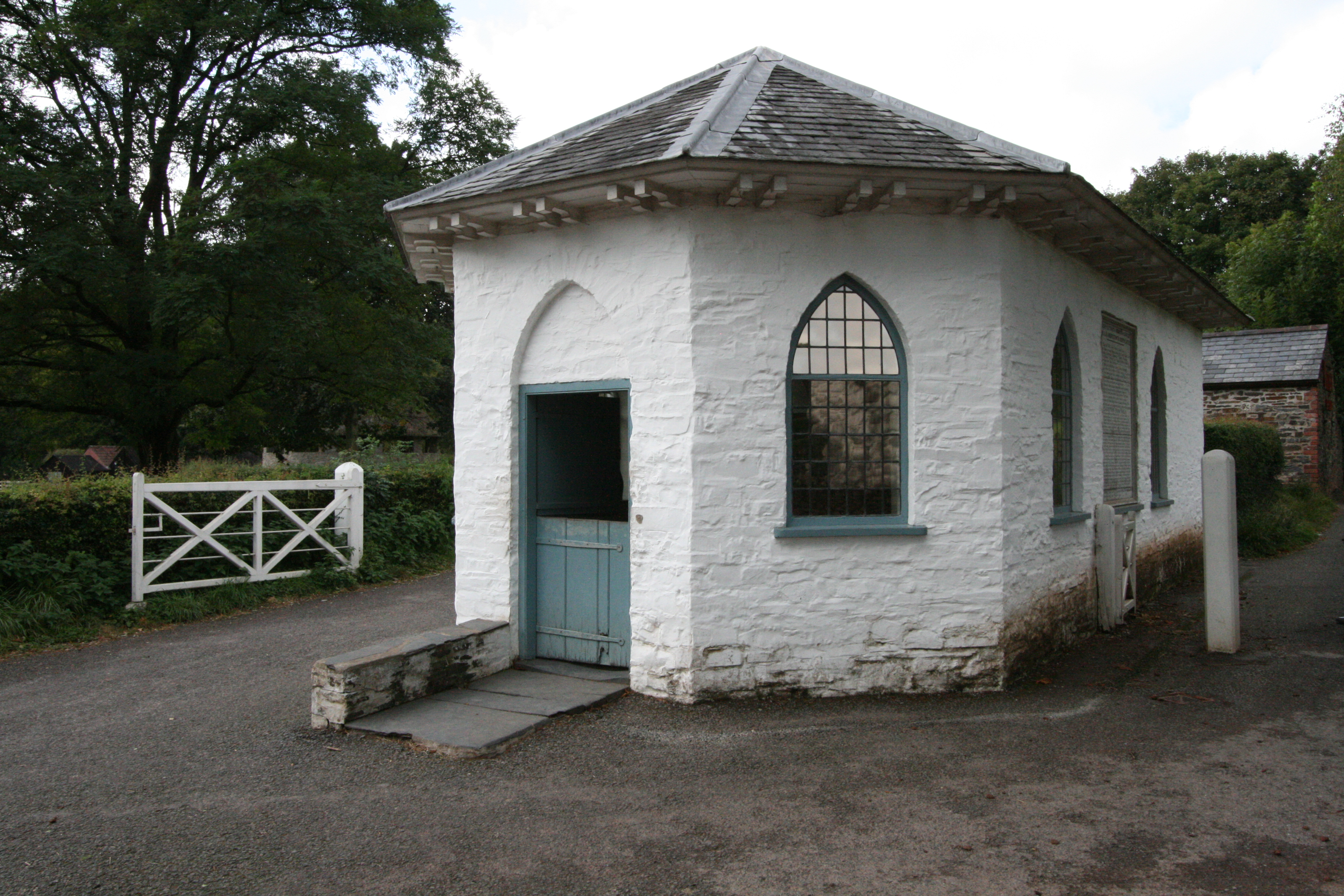 Aberystwyth Southgate Tollhouse, now located at St Fagan's National History Museum, Cardiff